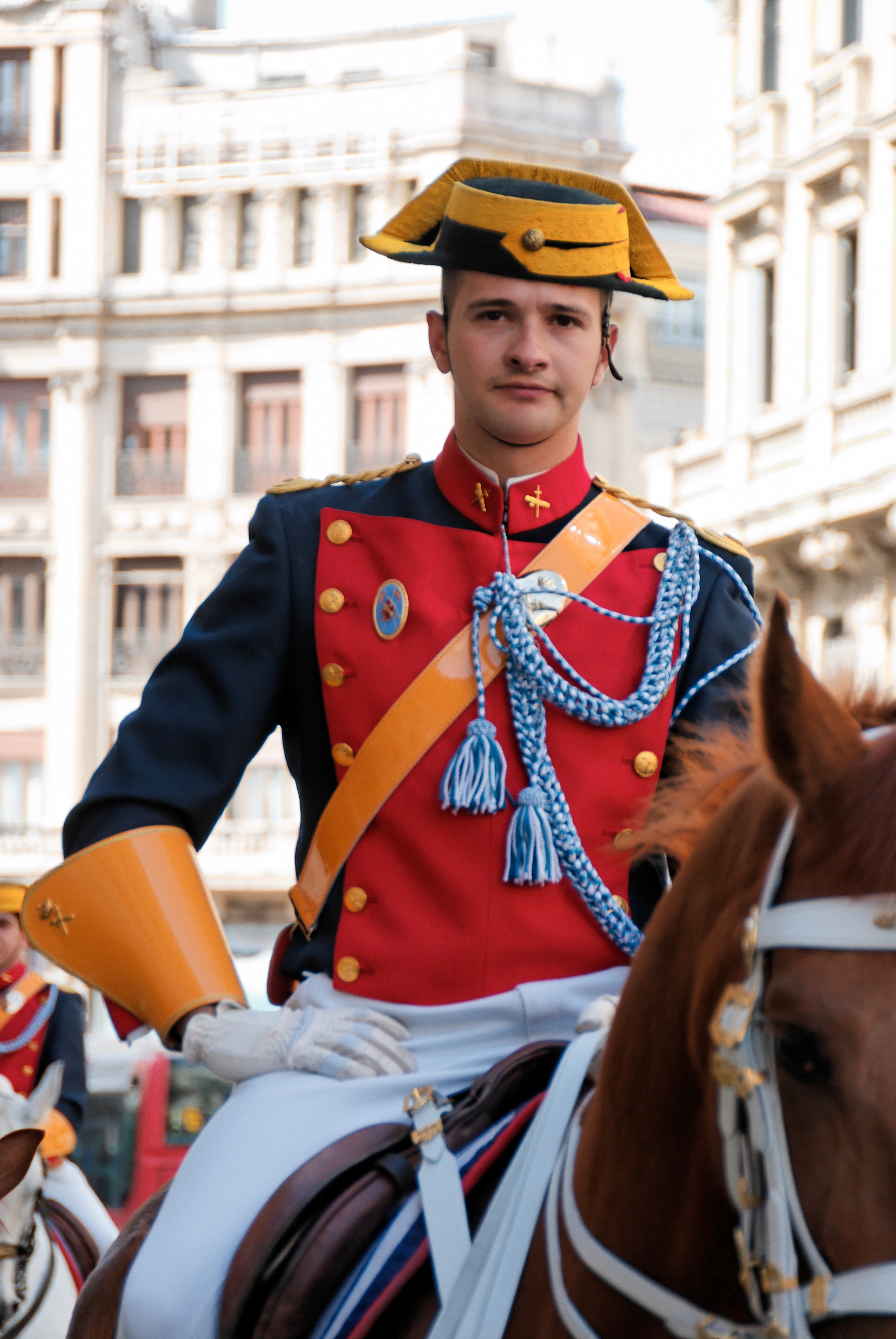 Horse guard of the Guardia Civil in dress uniform during a military parade for the Dos de Mayo celebrations. Calle Sevilla, Madrid.